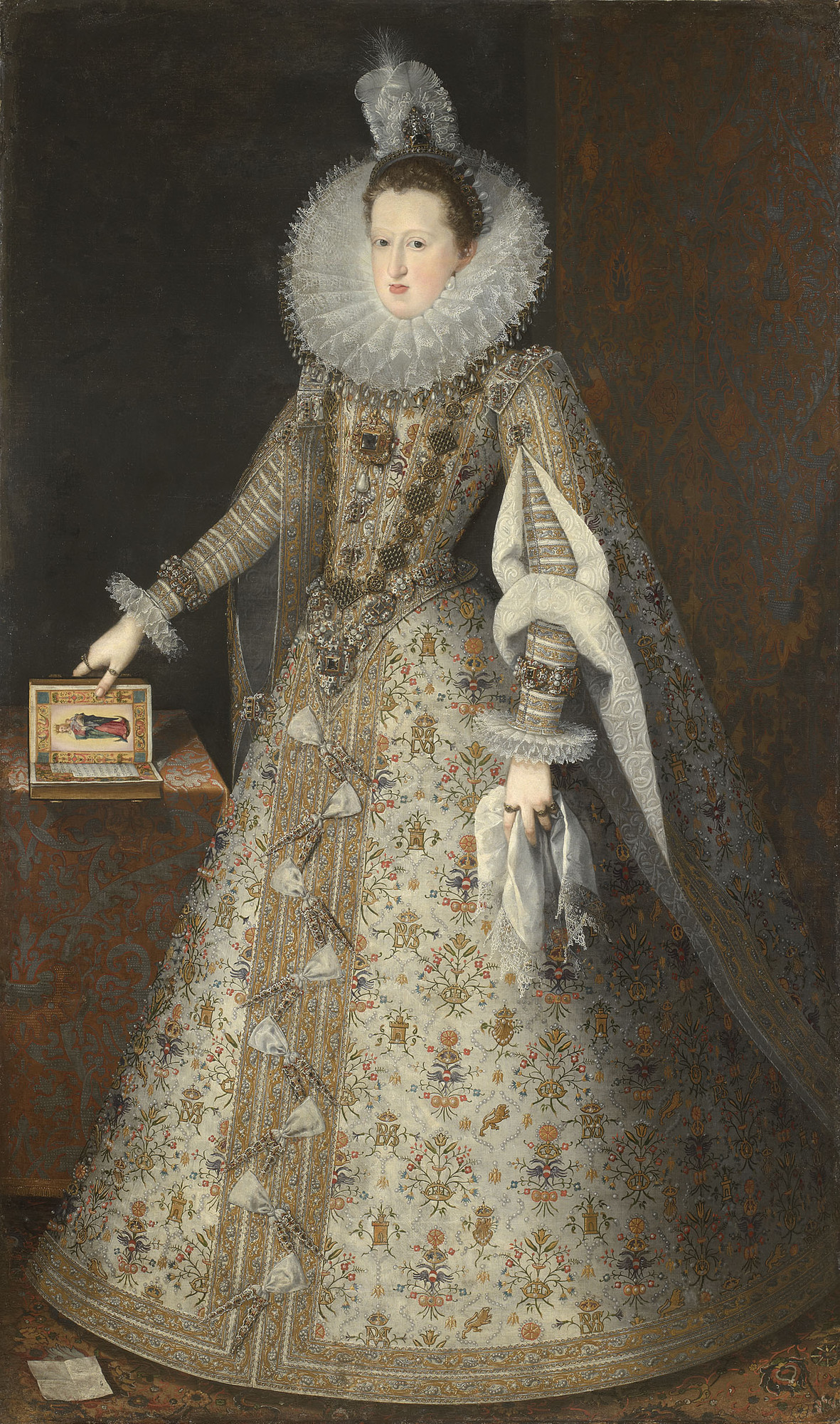 Portrait of Margaret of Austria (1584-1611), Queen of Spain.